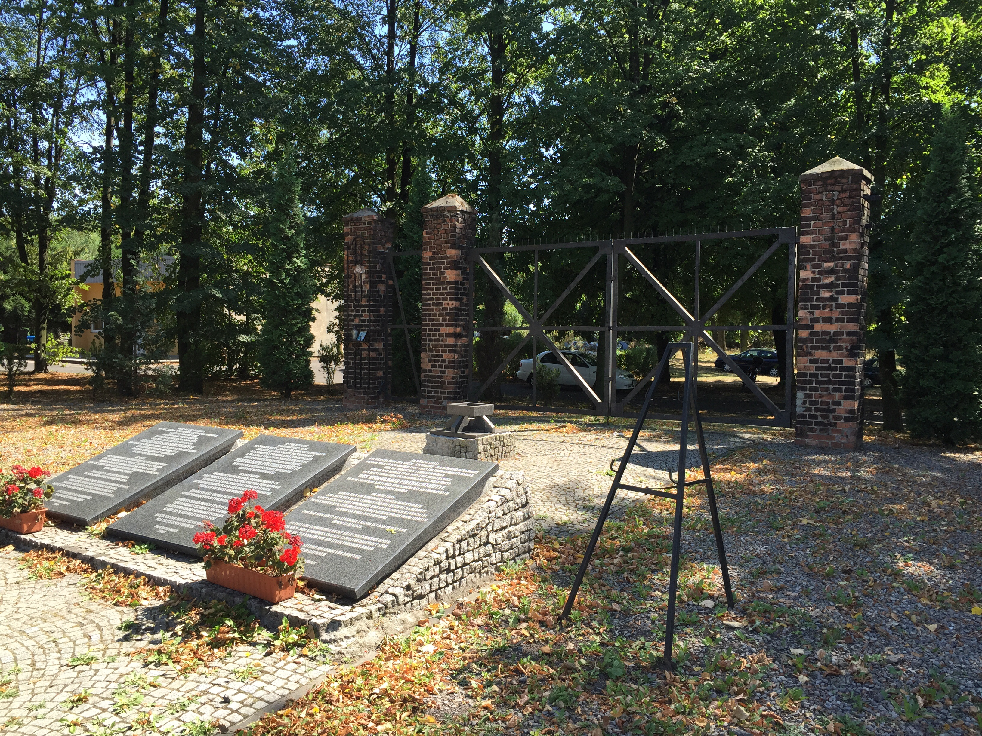 Gate - monument to concetration camp Zgoda, Świętochłowice, poland